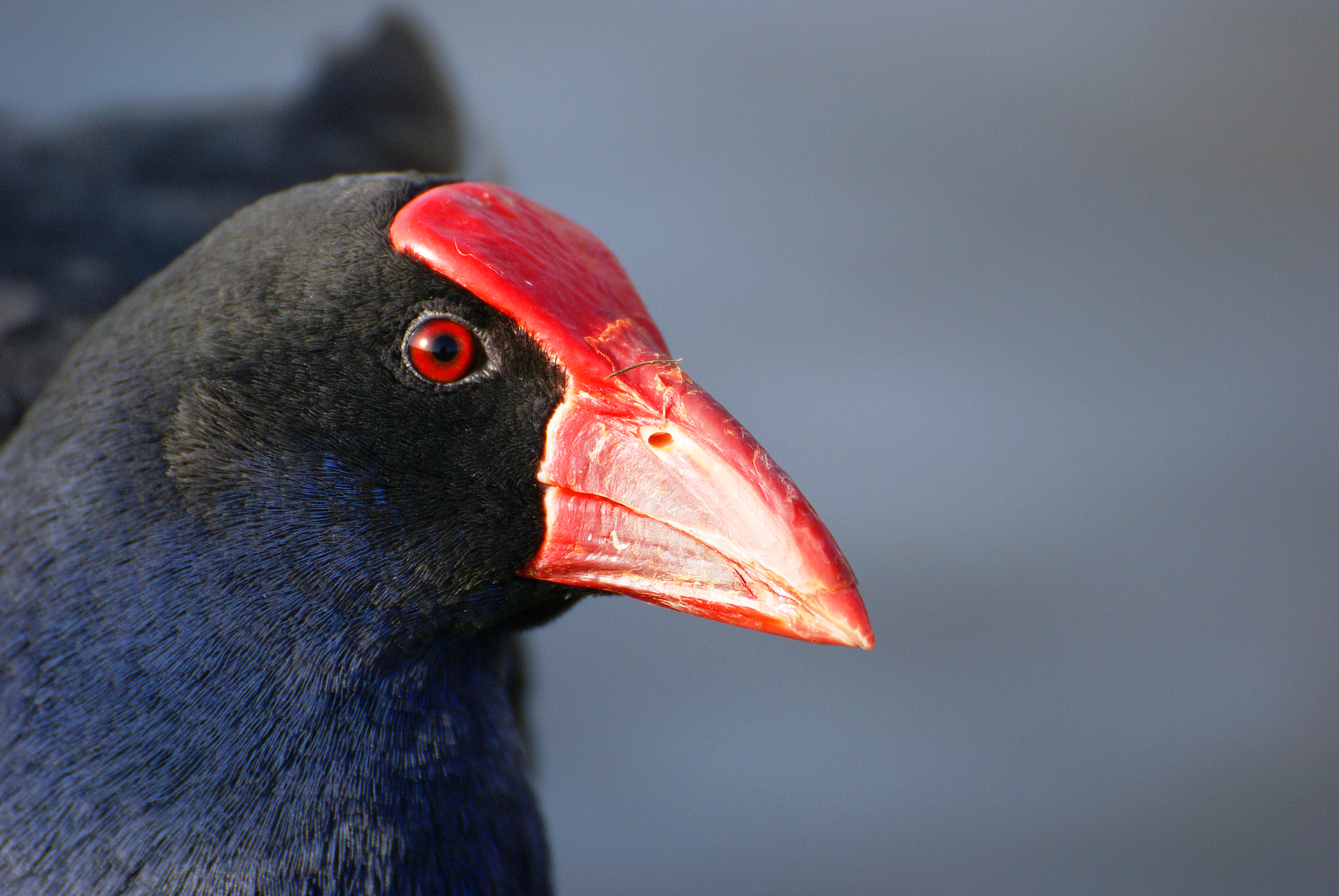 The Pukeko, or New Zealand Swamp Hen is a member of the rail family, and is similar to other species found all over the world. It is one of the few New Zealand native birds to have flourished since the arrival of man, and can be found in almost any grassland area, especially in swampy locations. Groups will often be seen foraging for food in road-side areas. With their bright blue plumage and red beaks, they easily stand out against the New Zealand greenery, particularly when their white tail feathers begin flashing in alarm. Just why they have struck a chord with the Kiwi psyche is hard to say, but you'll find their images on all manner of art and craft works. Ask any visitor to New Zealand what bird they remember most, and they will more than likely answer, "The Pukeko!"